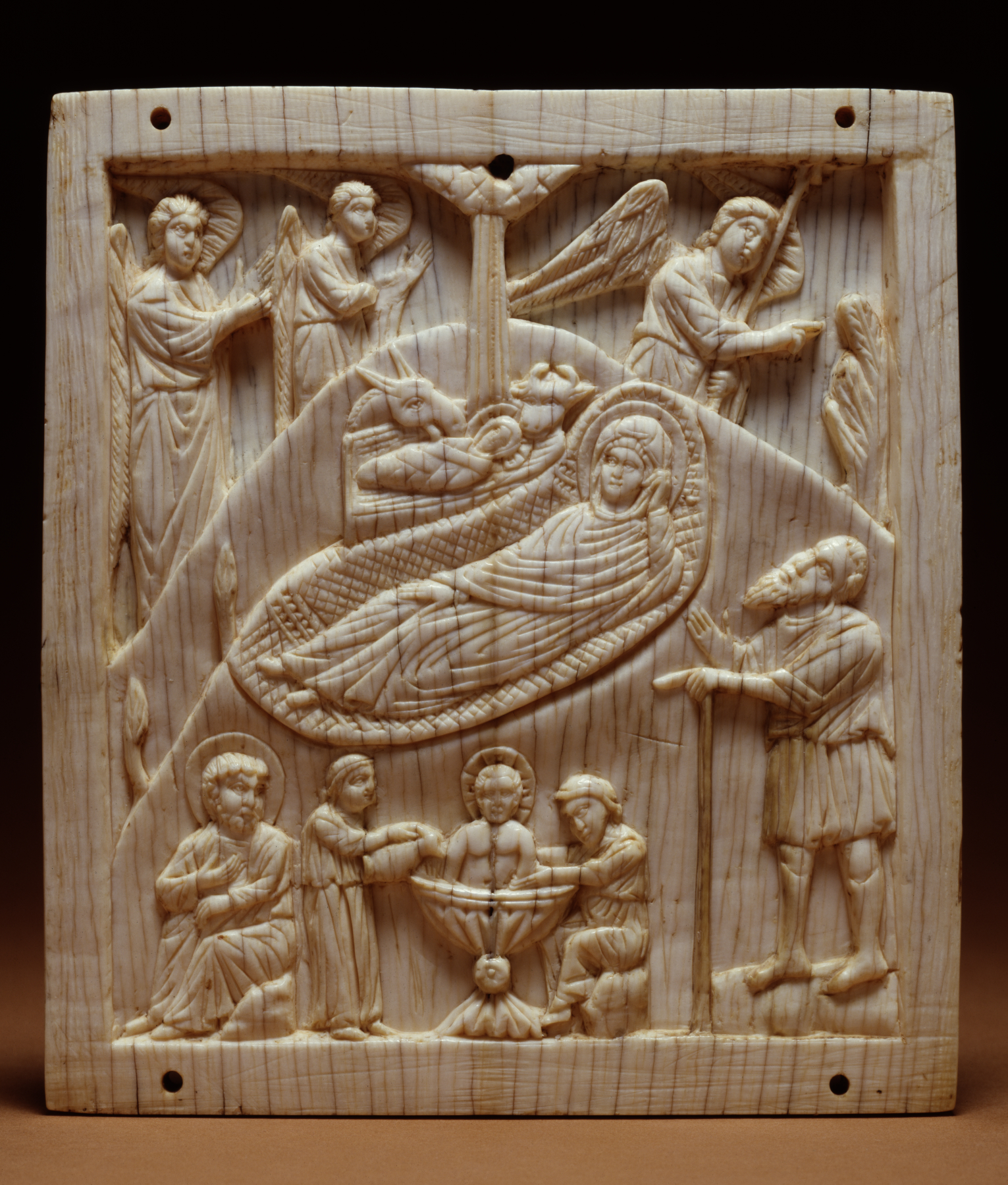 Set against the silhouette of a mountain, the Virgin rests beside the manger with the swaddled Christ Child. Three angels emerge from behind the mountain, one of whom announces the birth of Christ to the standing shepherd on the left. In the foreground, the infant receives his first bath while the seated Joseph watches the scene. The motif of Christ receiving his first bath is characteristic of Byzantine images of the Nativity and rarely appears in western European art.